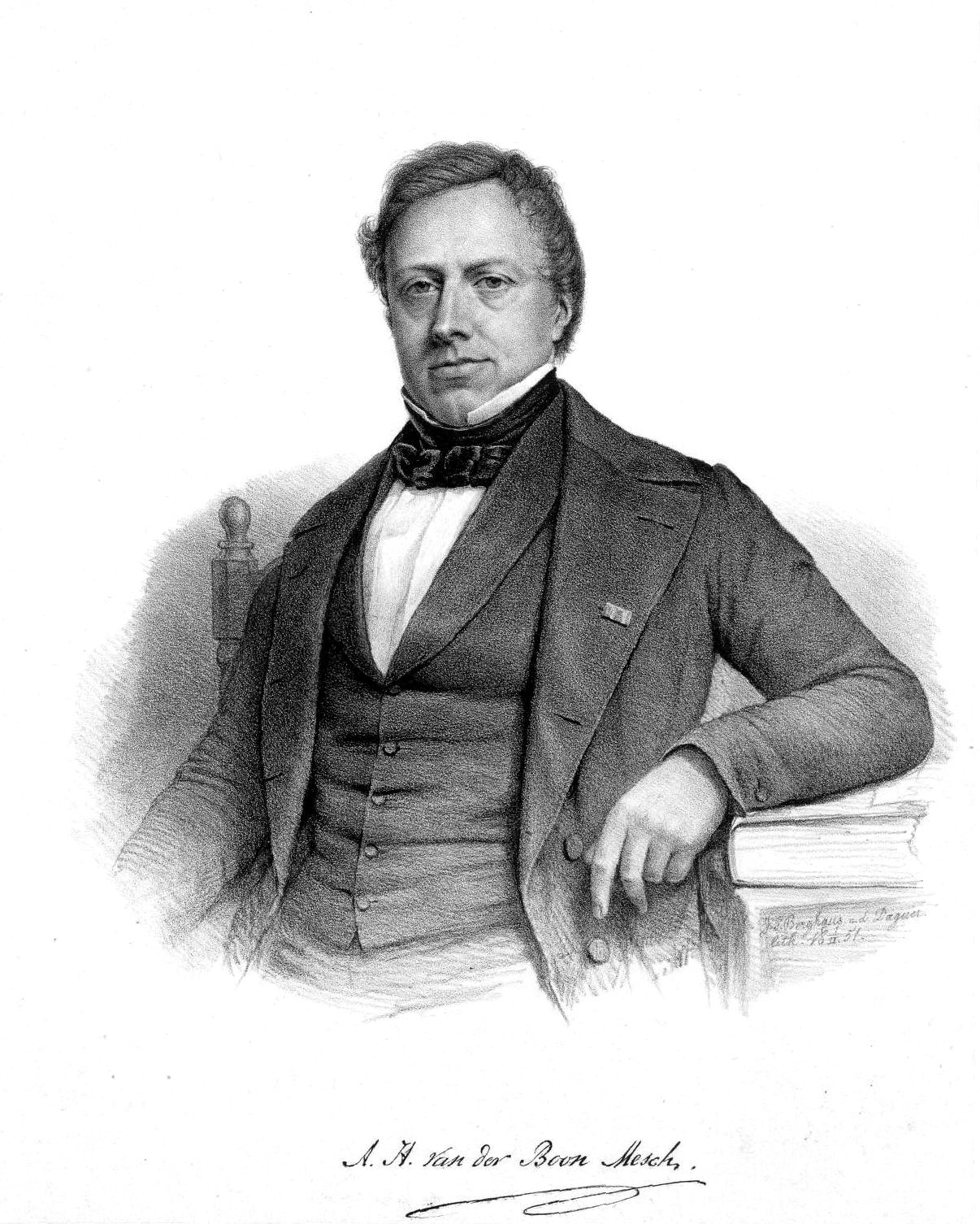 Antony Hendrik van der Boon Mesch door Johann Peter Berghaus